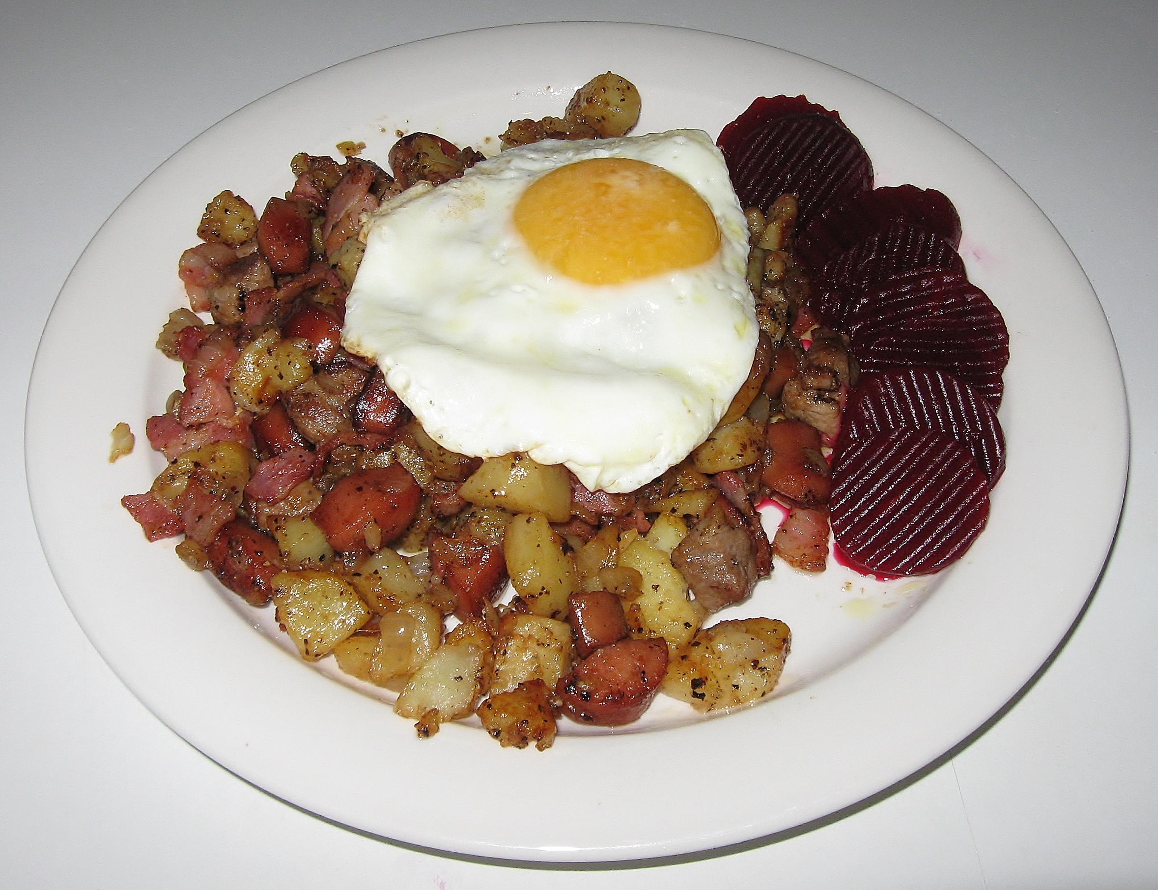 Pyttipanna, classically served with a fried egg and pickled beetroot .